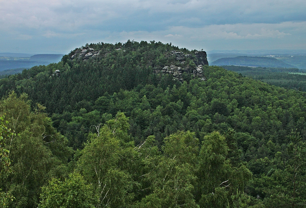 Saxon Switzerland: The Gohrisch (440 metres) seen from the Papststein.